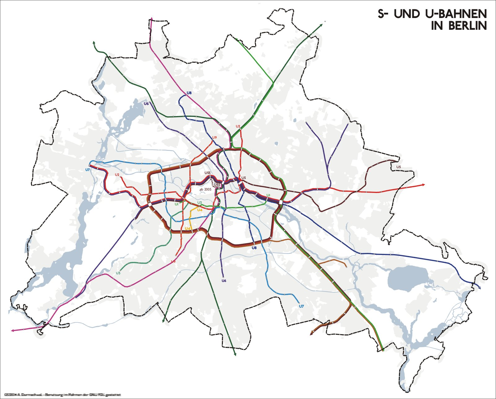 Map of Berlin's underground and suburban rail network